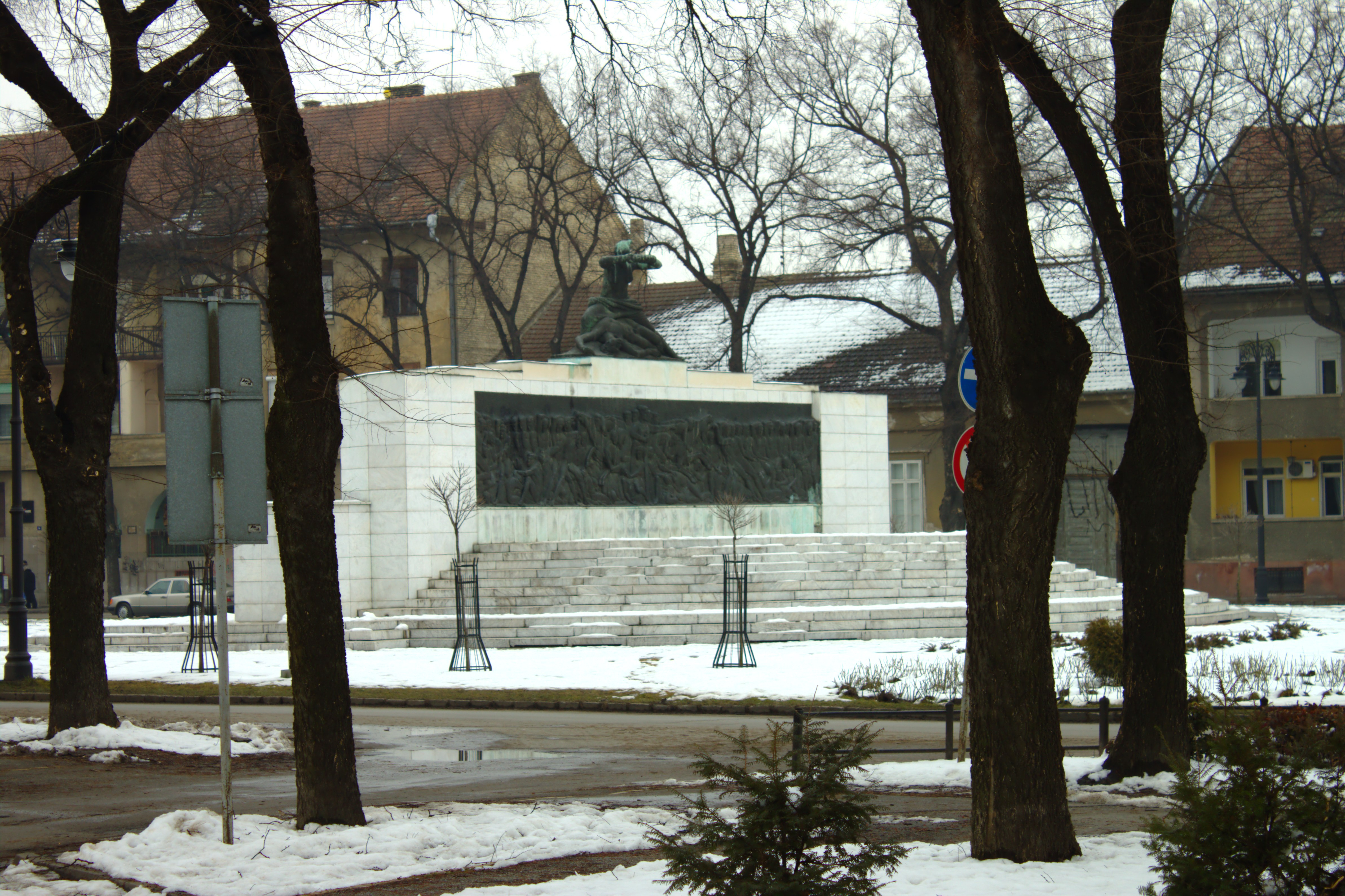 Subotica, the Trg žrtava fašizma square (victims of fascism) in the town centre, Subotica